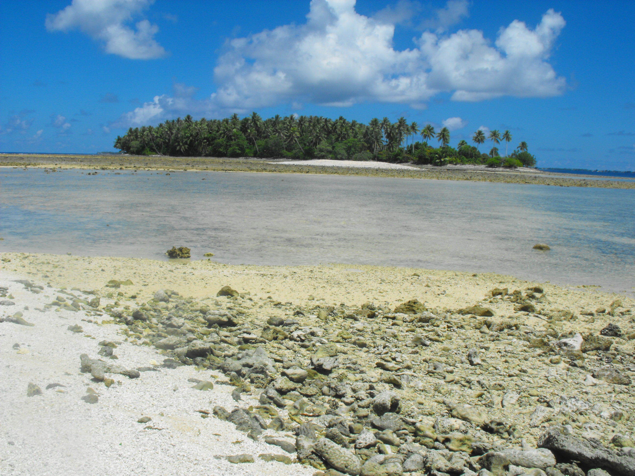 Images of/from Bikrin Islet, Majuro Atoll, Republic of the Marshall Islands